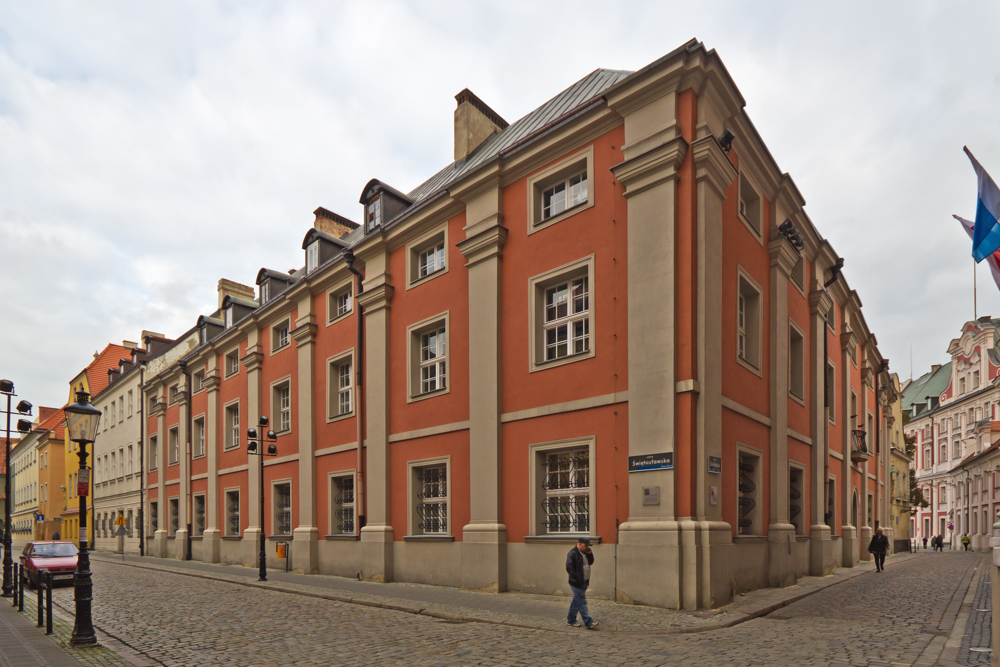 Ballet school in Poznań, Greater Poland